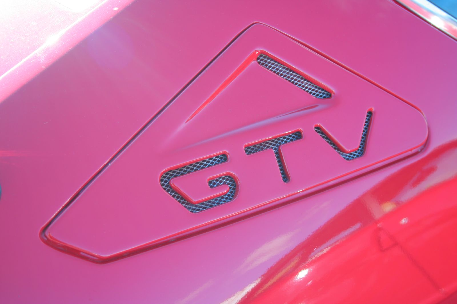 Detail of GTV